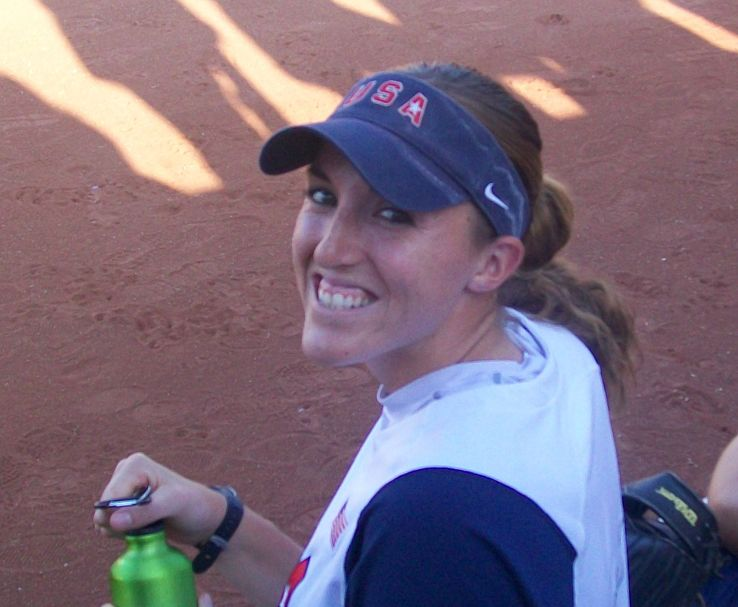 Monica Abbott at the 2009 KFC World Cup of Softball